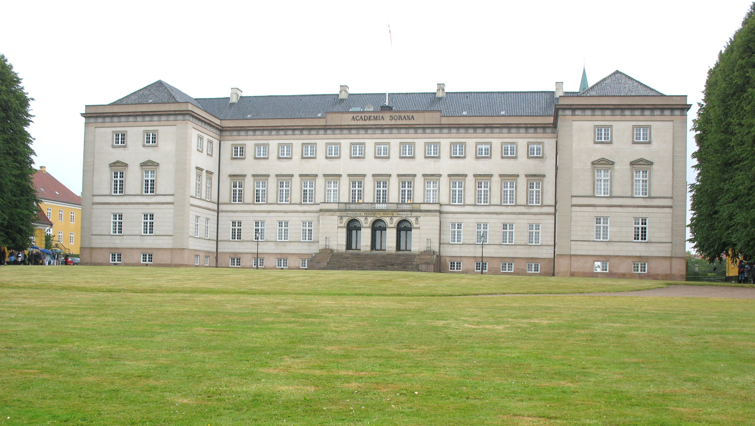 The academy "Sorø Akademi" in the town "Sorø" located in West Zealand, east Denmark.